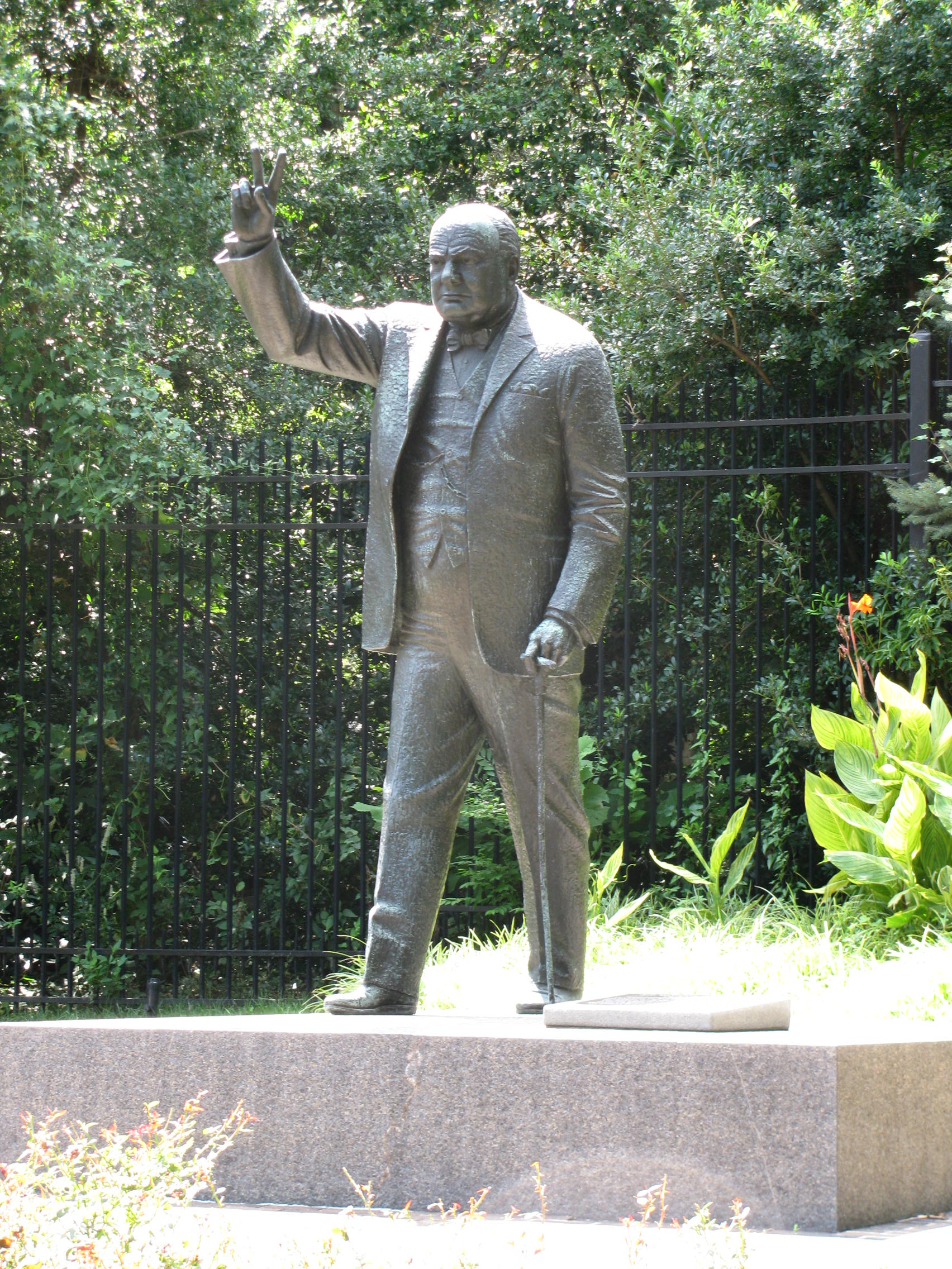 Winston Churchill, (sculpture). Artist: McVey, William, 1905-1995 , sculptor. George F. Dalton and Associates, architectural firm. Fred Toquchi Associates, architectural firm. [1]